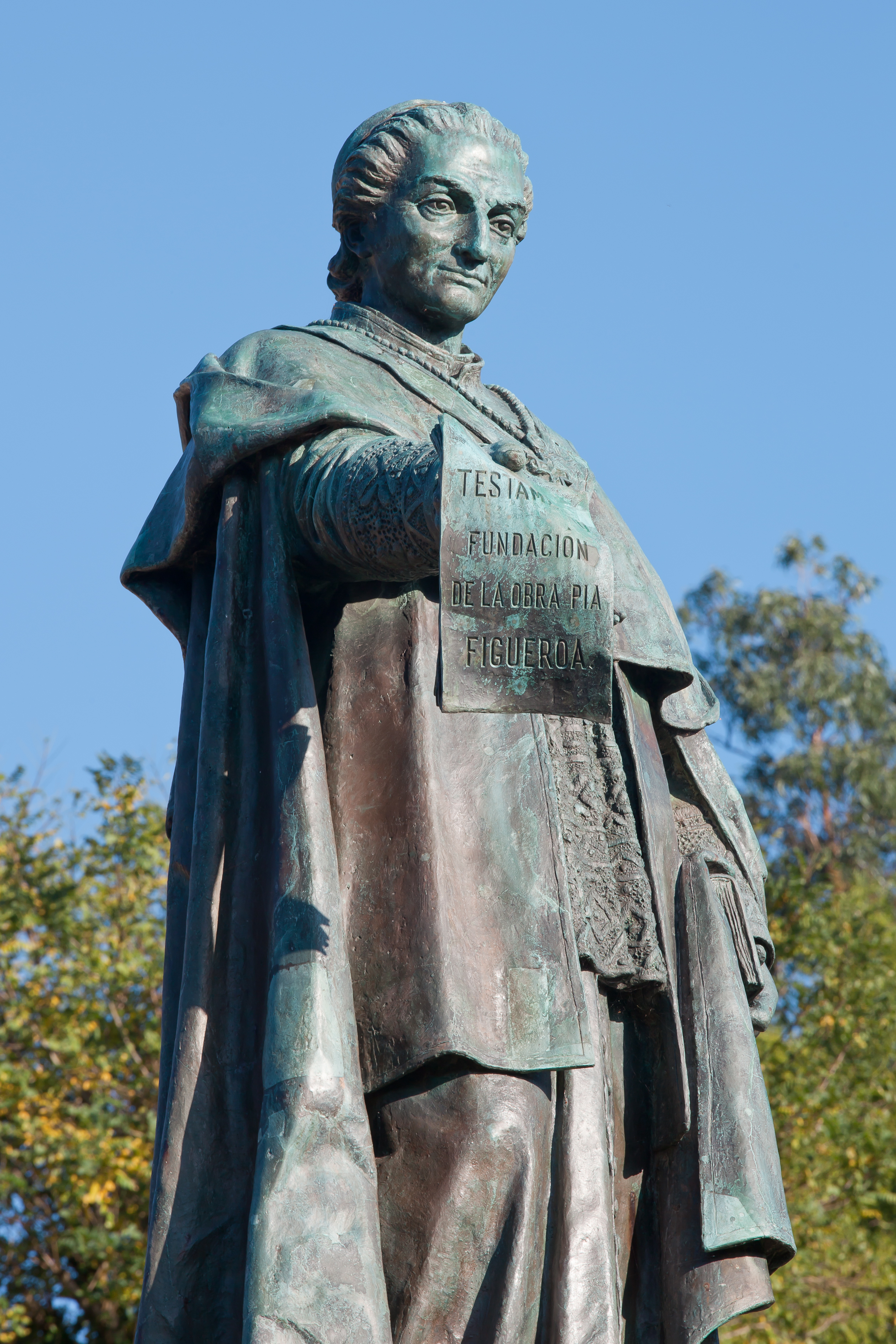 Sculpture of Manuel Vázquez Figueroa, park of Santiago de Compostela, Galicia (Spain)